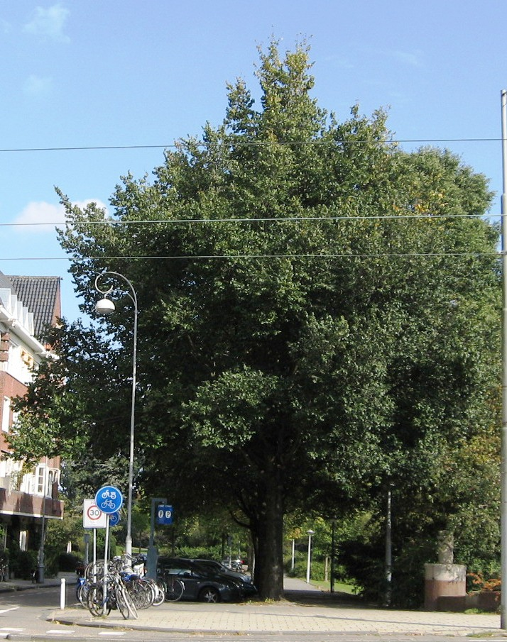 Ulmus minor 'Schuurhoek' ( beethovenstraat amsterdam); Photo taken by Ronnie Nijboer